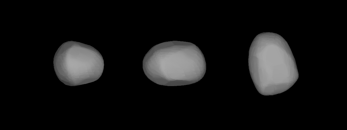 A three-dimensional model of 130 Elektra that was computed using light curve inversion techniques.